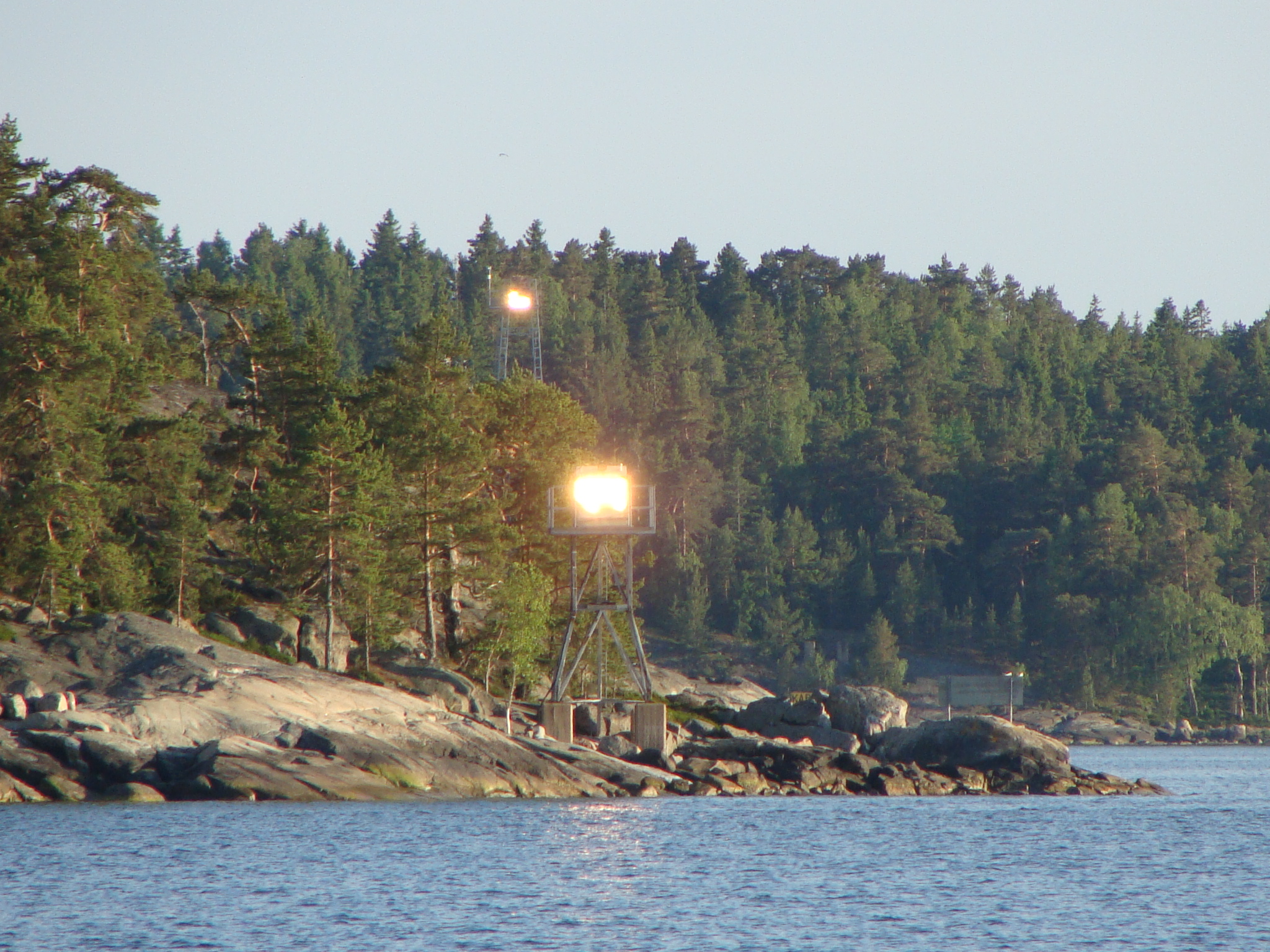 Leading Lights for daytime use on the island of Seili by the Naantali 13m fairway at Airisto in the Archipelago Sea in Finland.